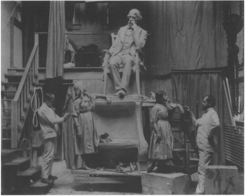 U.S. artist Frank Edwin Elwell (right) and a model in his studio with his sculpture Dickens and Little Nell.